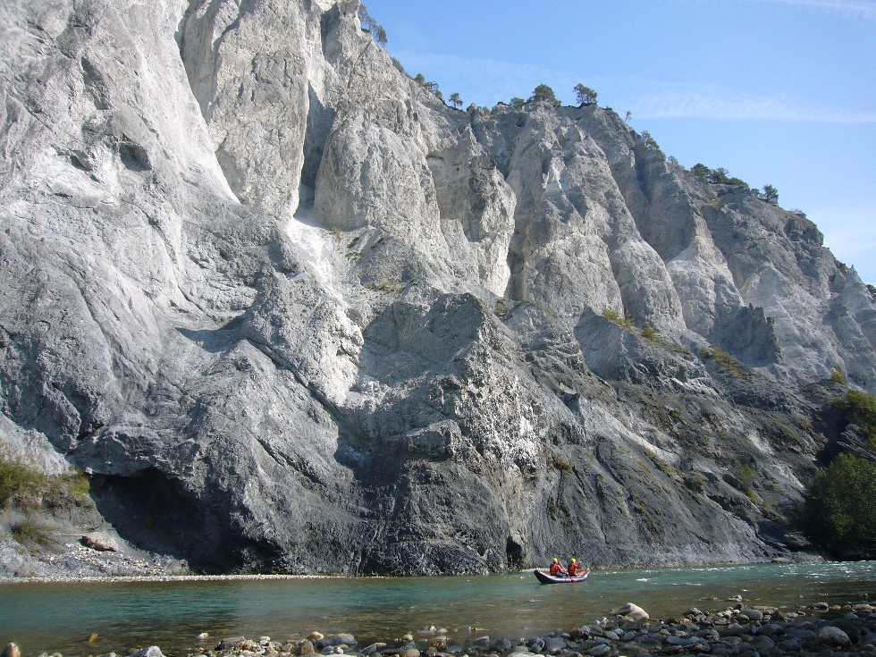 River Rhine cutting through the smashed debris of Flims Rockslide near the rail station of Versam.